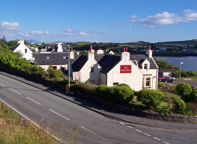 Dunvegan rooftops Viewed from the war memorial, and looking south east, the road to the left is the A850 which makes its way to Portree. The Cuillin mountain range is just visible on the horizon on the left.